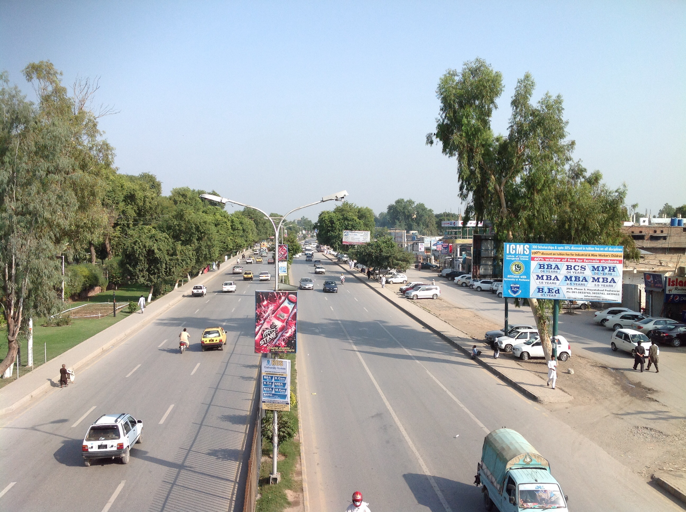 University road along Islamia College